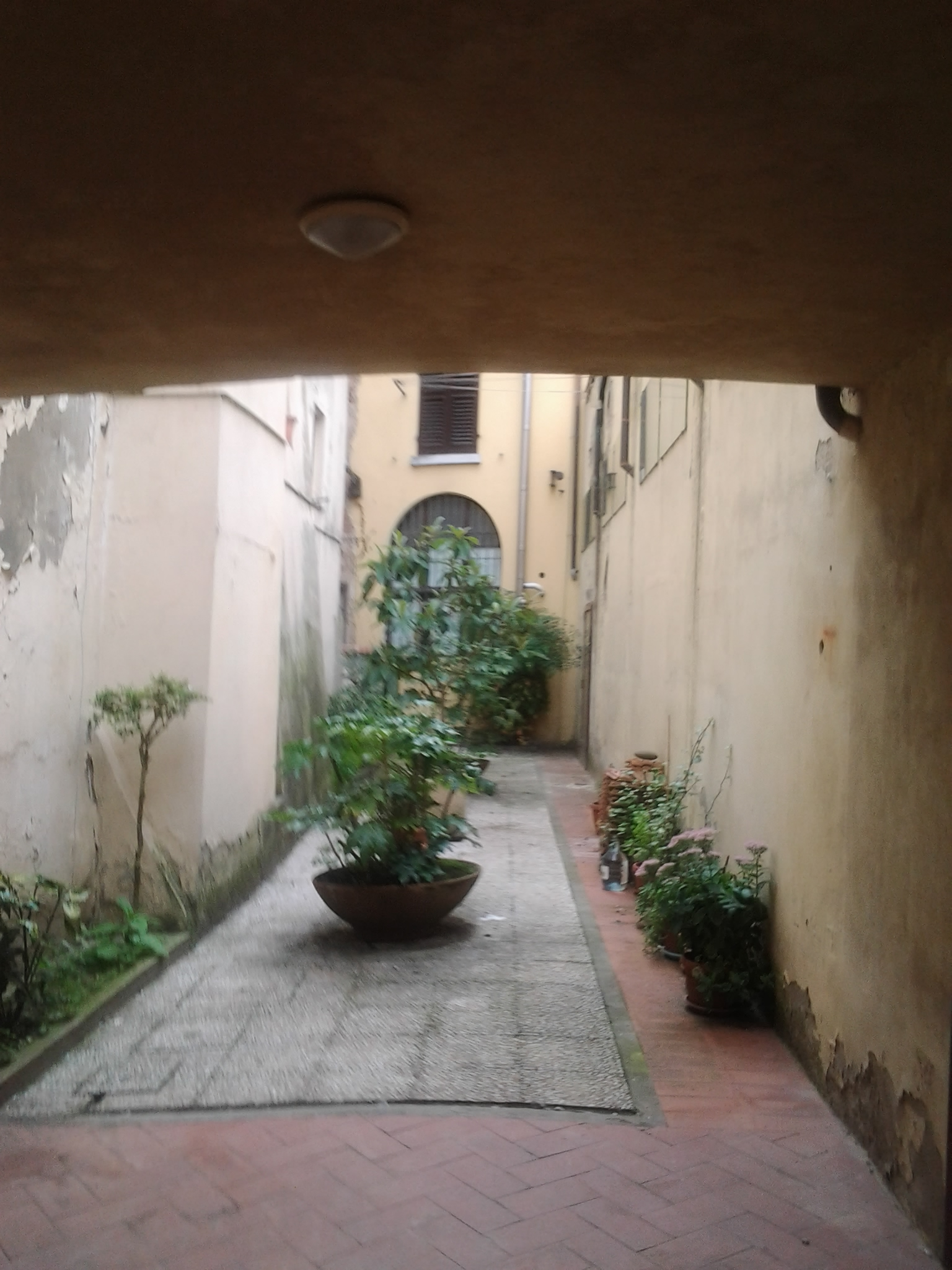 Patio in Montevarchi (AR), Tuscany, Italy